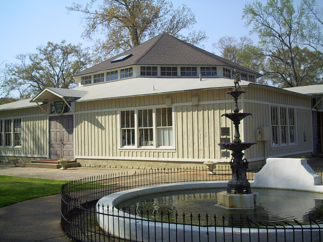 Highland Park Dentzel Carousel outside view including fountain.